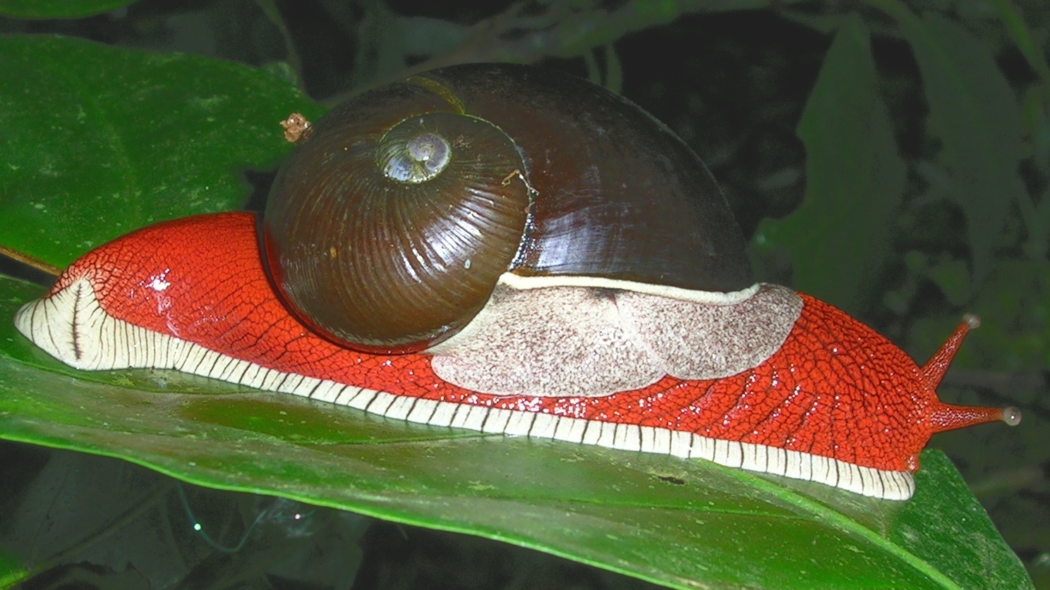 Snail Indrella ampulla (Benson), Ariophantidae, from North Wayanad, Kerala (Determination courtesy of N A Aravind, ATREE, Bangalore)